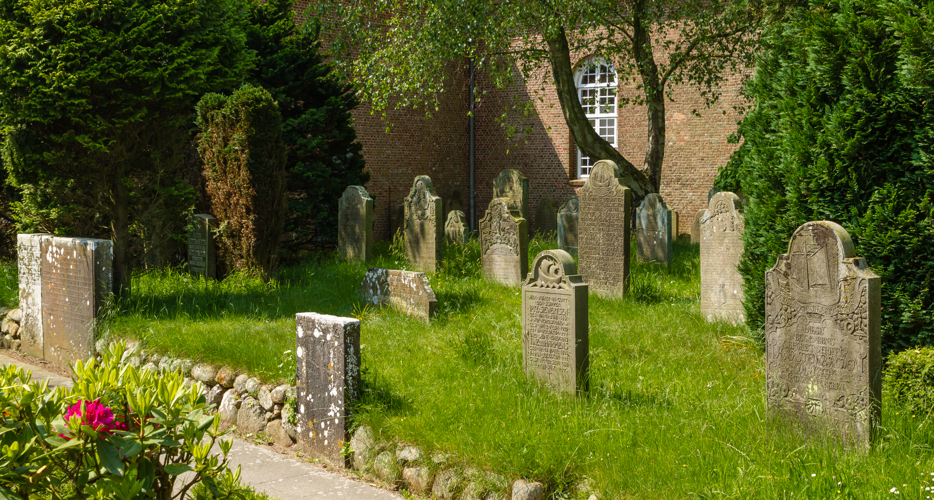 Designation: Tombs till 1870 Location: Kirchweg Place: Wyk-Boldixum, Collective municipality Föhr-Amrum, District Nordfriesland, Schleswig-Holstein, Federal Republic of Germany Construction time: before 1870 Description: Tombs in the cemetery of the church St. Nicolai in Wyk auf Föhr. Object identification: 19363